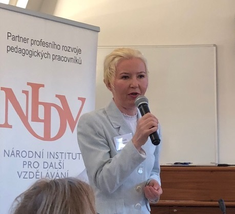 Snježana Kordić as keynote speaker about "Language and National Identity" at the VII. International Conference for Multilingual Assistance in Schools, Prague (NIDV)